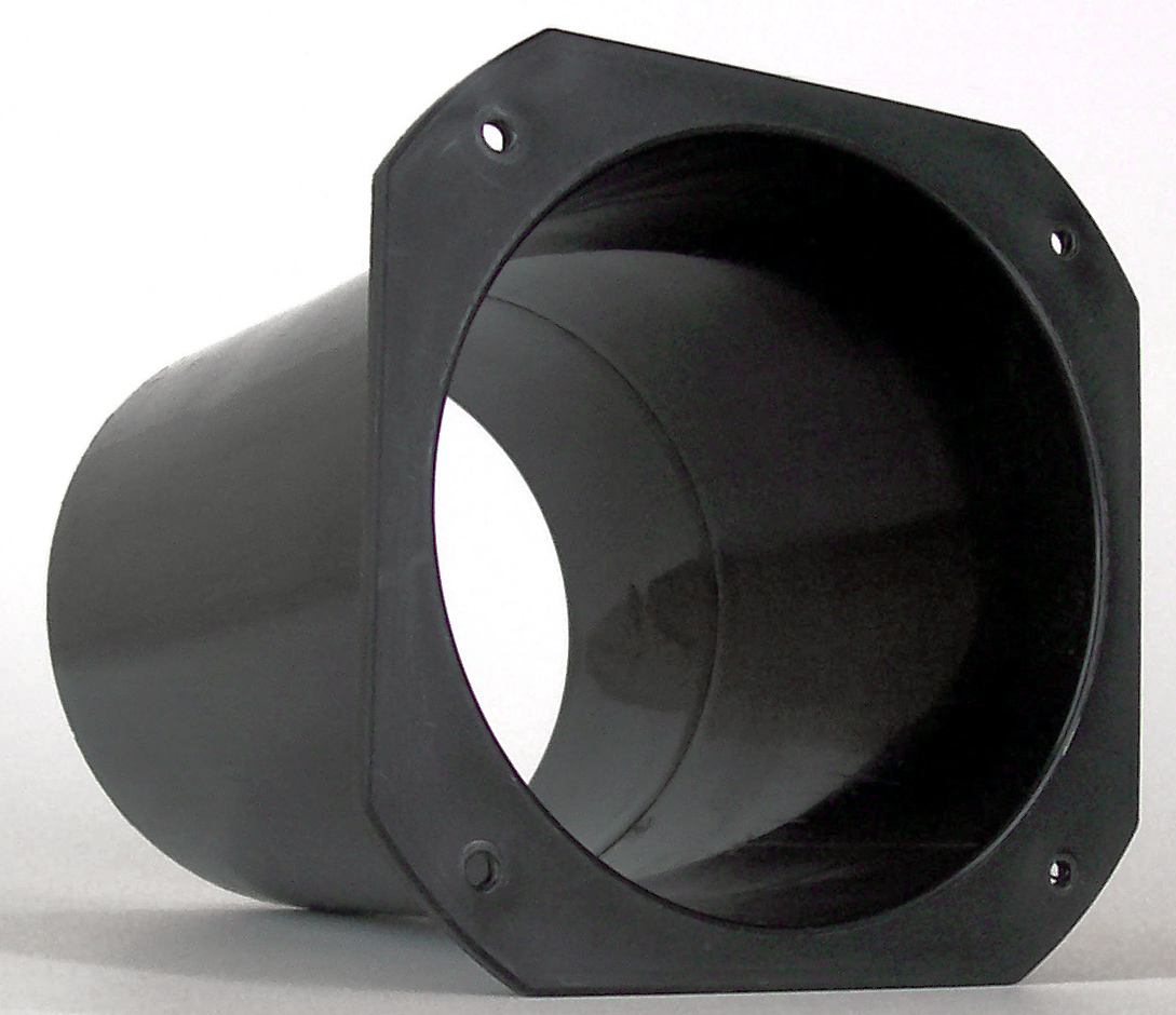 Bass reflex tube